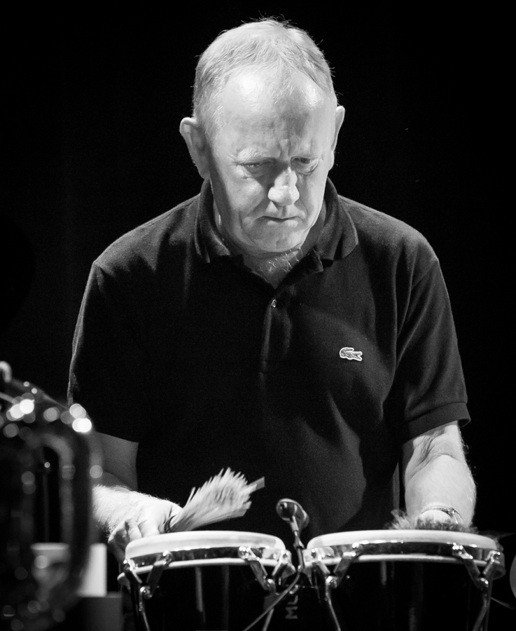 Frank Jakobsen performs with Cutting Edge at the stage of Nasjonal Jazzscene Victoria. The concert was part of the Oslo Jazz Festival in Norway and took place on 17. August 2016. Lineup: Rune Klakegg (keyboard) Morten Halle (tenor saxophone) Knut Værnes (guitar) Edvard Askeland (bass guitar) Frank Jakobsen (drums) Stein Inge Brækhus (drums)